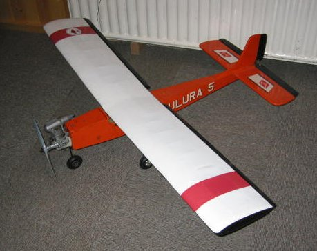 Model Tulura with combustion engine.